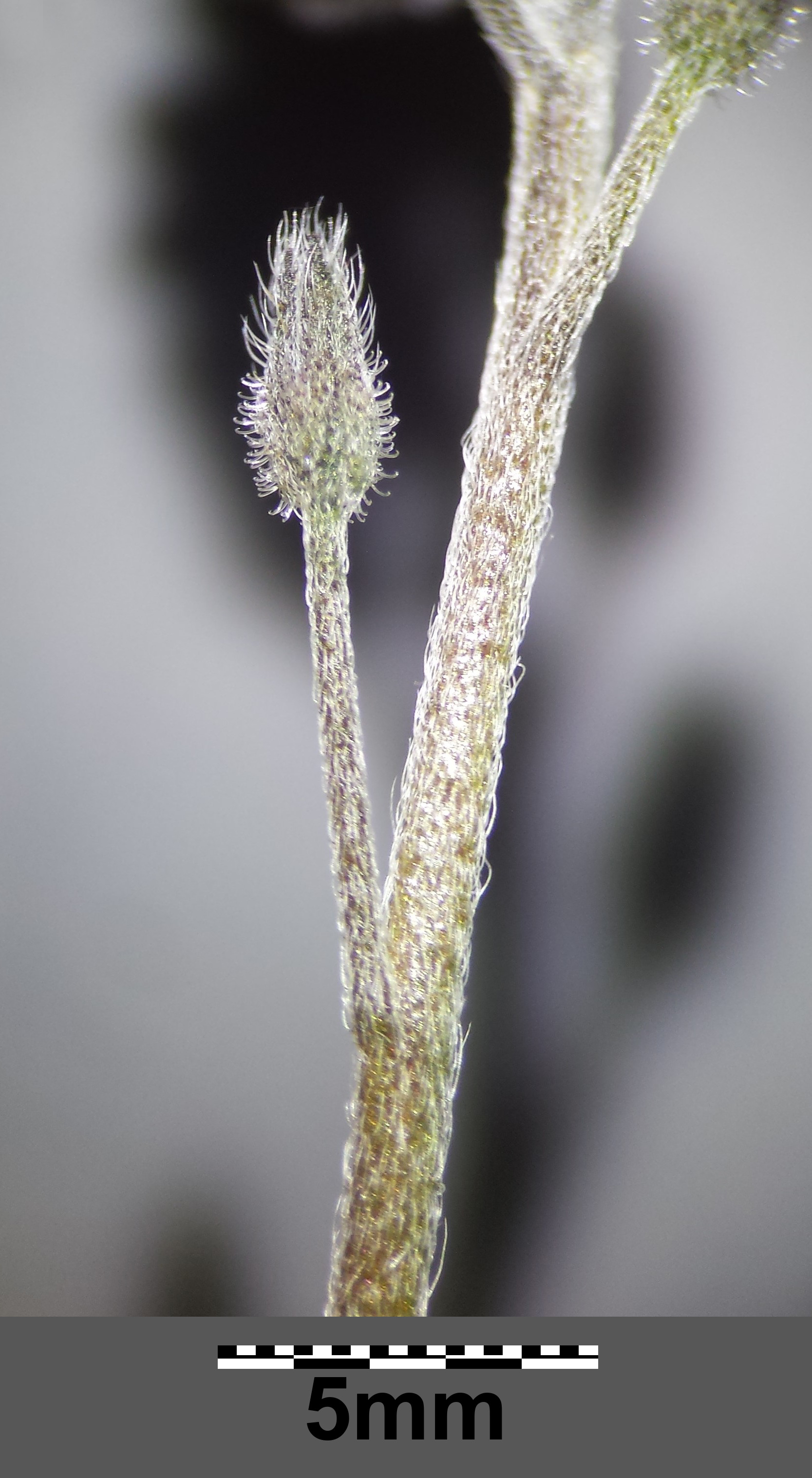 Fruit Taxonym: Myosotis arvensis (subsp. arvensis) ss Fischer et al. EfÖLS 2008 ISBN 978-3-85474-187-9 Location: Leiser Berge, district Korneuburg, Lower Austria - ca. 425 m a.s.l. Habitat: meadows